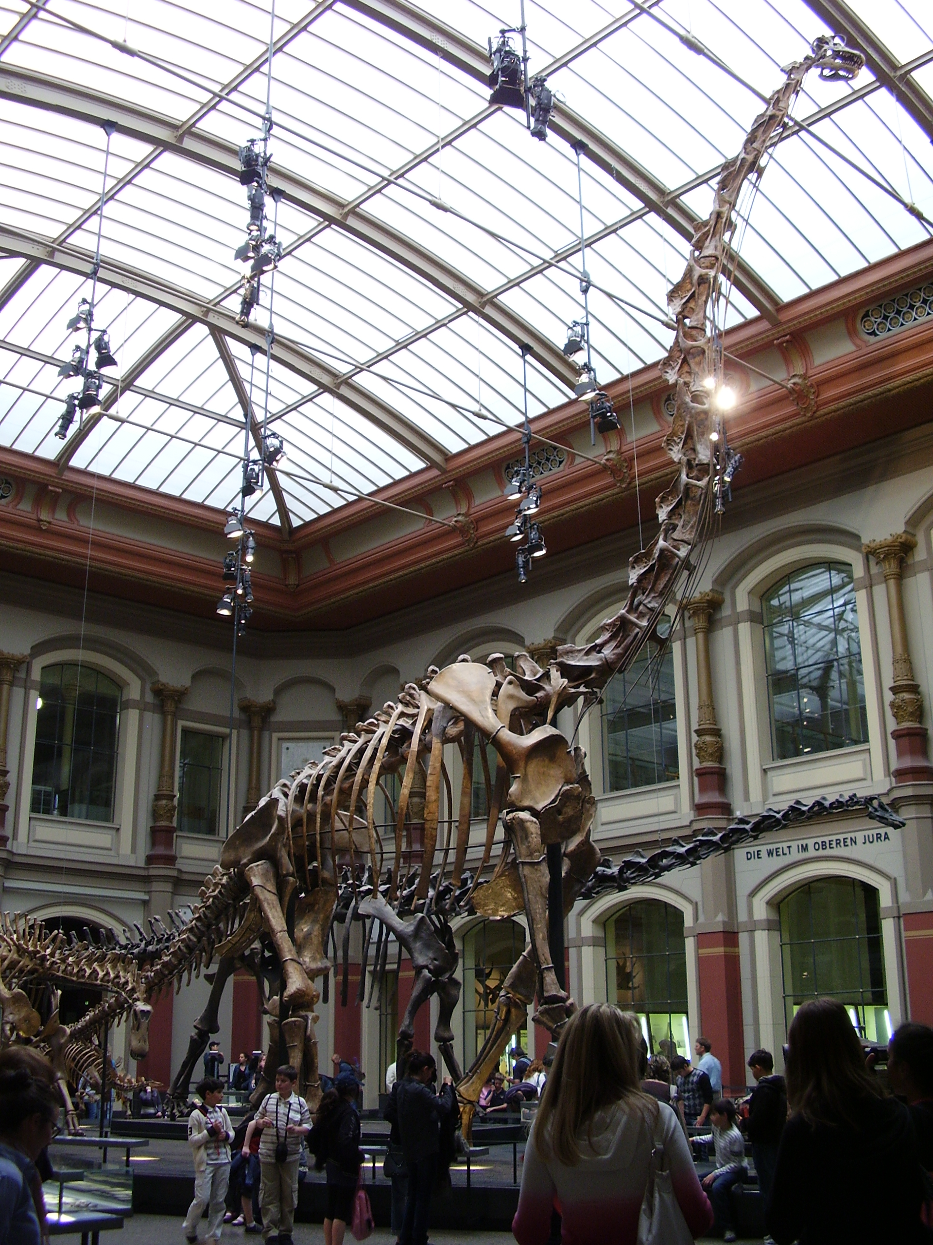 Giant skeleton of Graffatitan brancai in Berlin Natural history museum (2010).